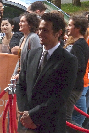 James Franco at the premiere of 127 Hours, Toronto Film Festival 2010